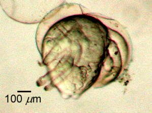 A pseudometanauplius of the krill species Nematoscelis difficilis hatches using the push-off hatching technique. Photo copyright Dr. Jaime Gómez-Gutiérrez, who has agreed to license this image under the terms of the GFDL.